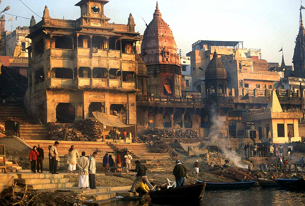 Hindu burning ghats along the banks of the sacred Ganges River in Varanasi, Manikarnika Ghat, India - site of cremations. Nikon FM2 / Nikon 200mm lens